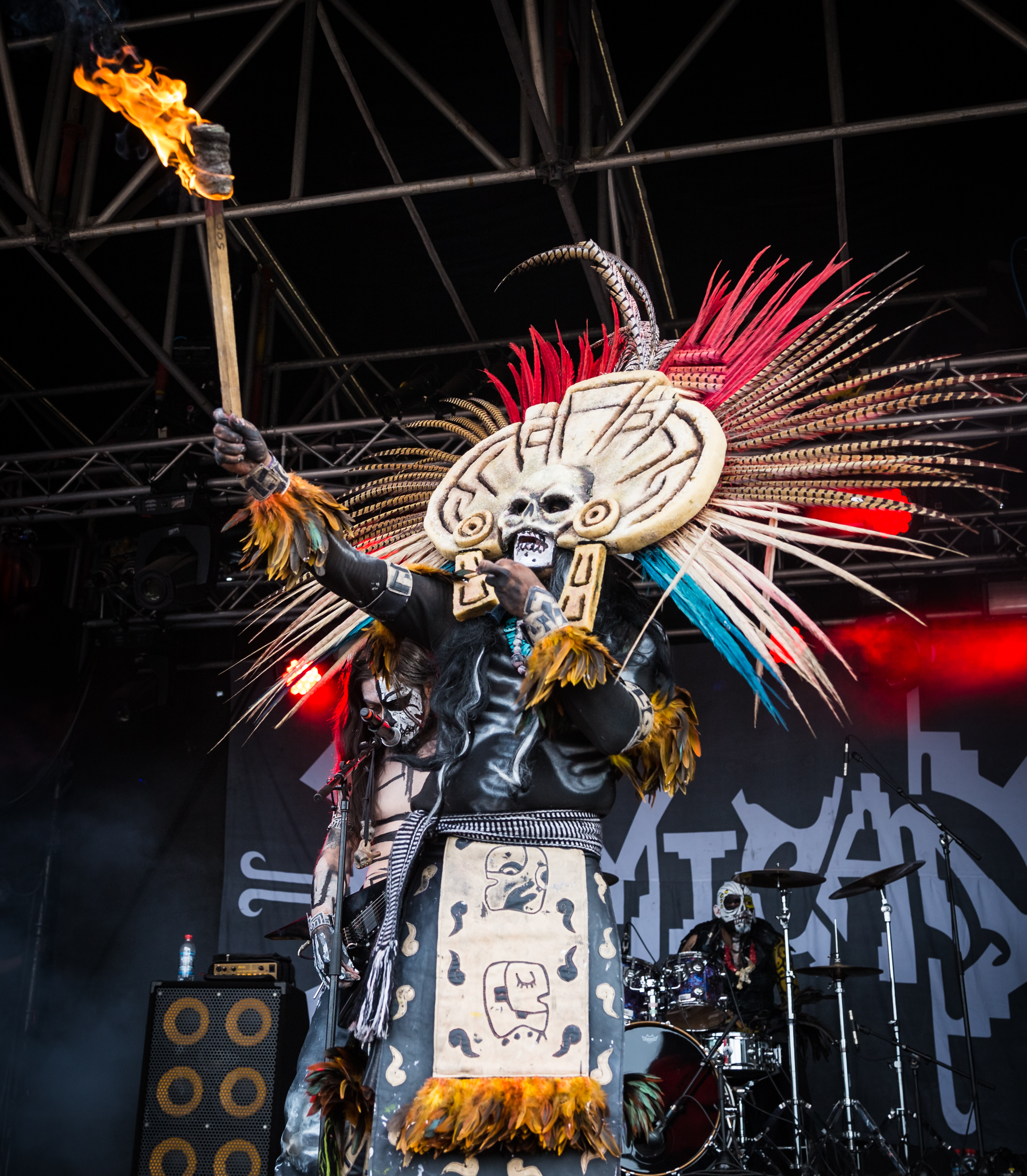 Cemican - Wacken Open Air 2018